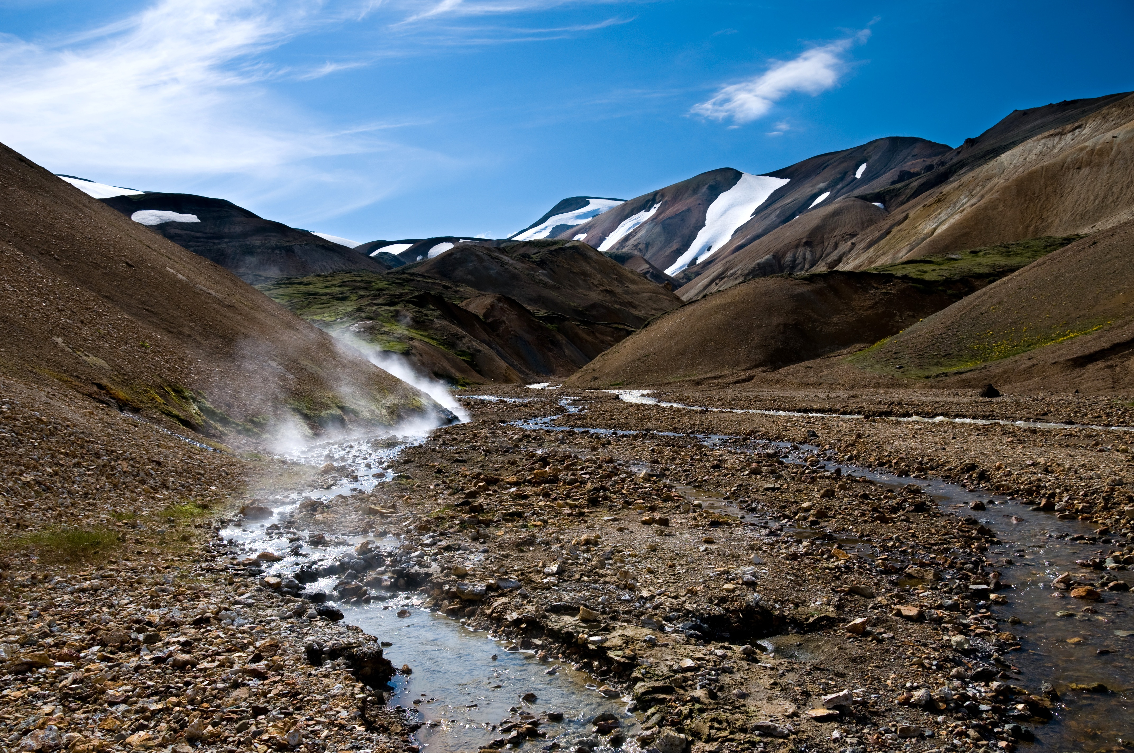 Vondugil with the mountain Háalda in the background